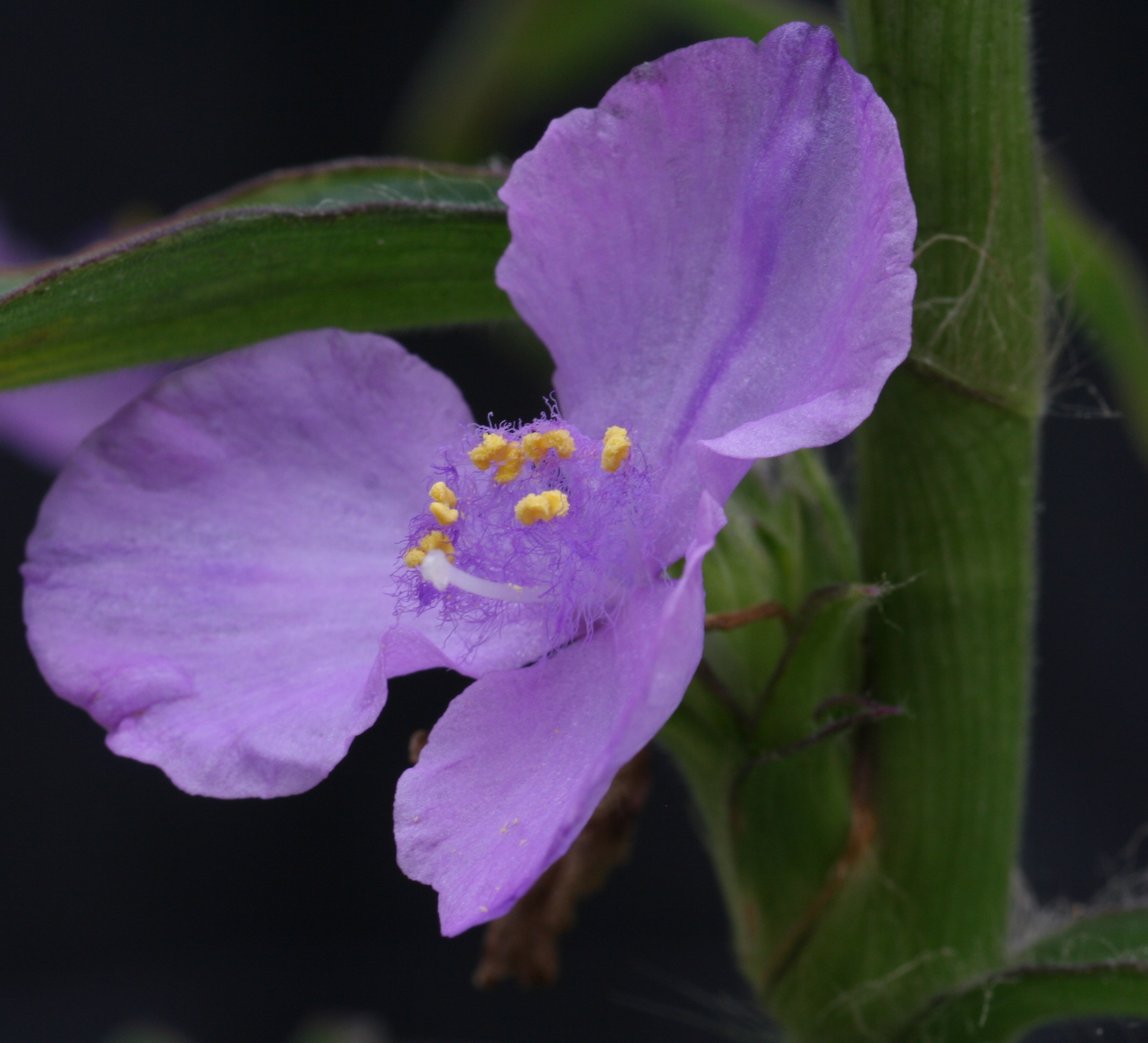 Profile photograph of Coleotrype natalensis growing in the greenhouses of the University of Missouri-St. Louis. The plant was collected along the Levubu River in the Limpopo Province of South Africa (Collection: Ernst van Jaarsveld 18098).